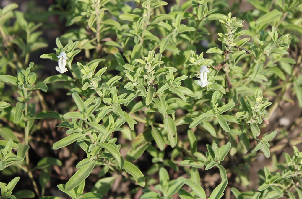 Habitus of Dracocephalum renati